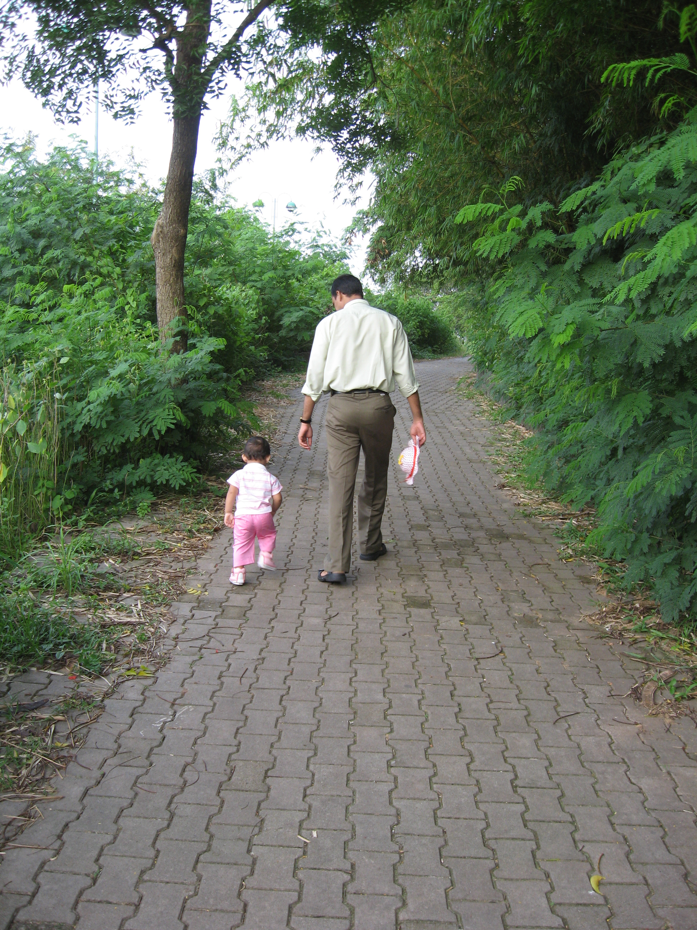 Parent and Child, Trivandrum District, Kerala State, India